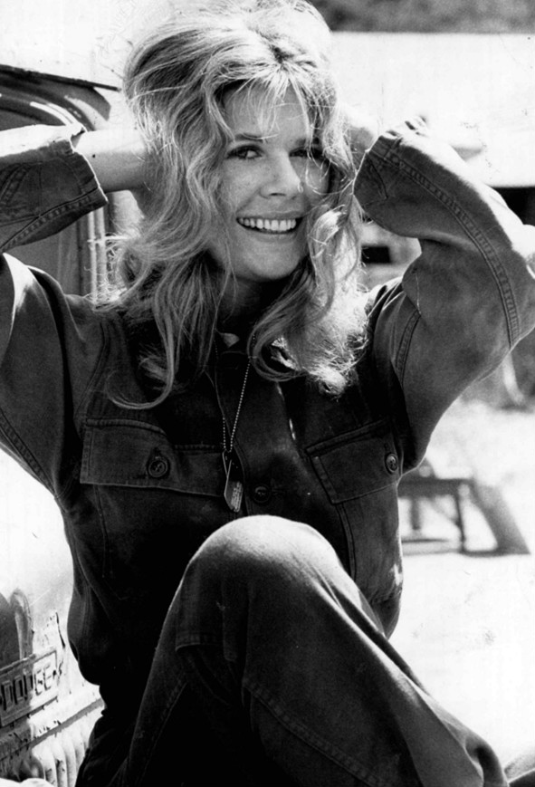 Photo of Loretta as "Hot Lips" Houlihan from the premiere of the television program M*A*S*H.